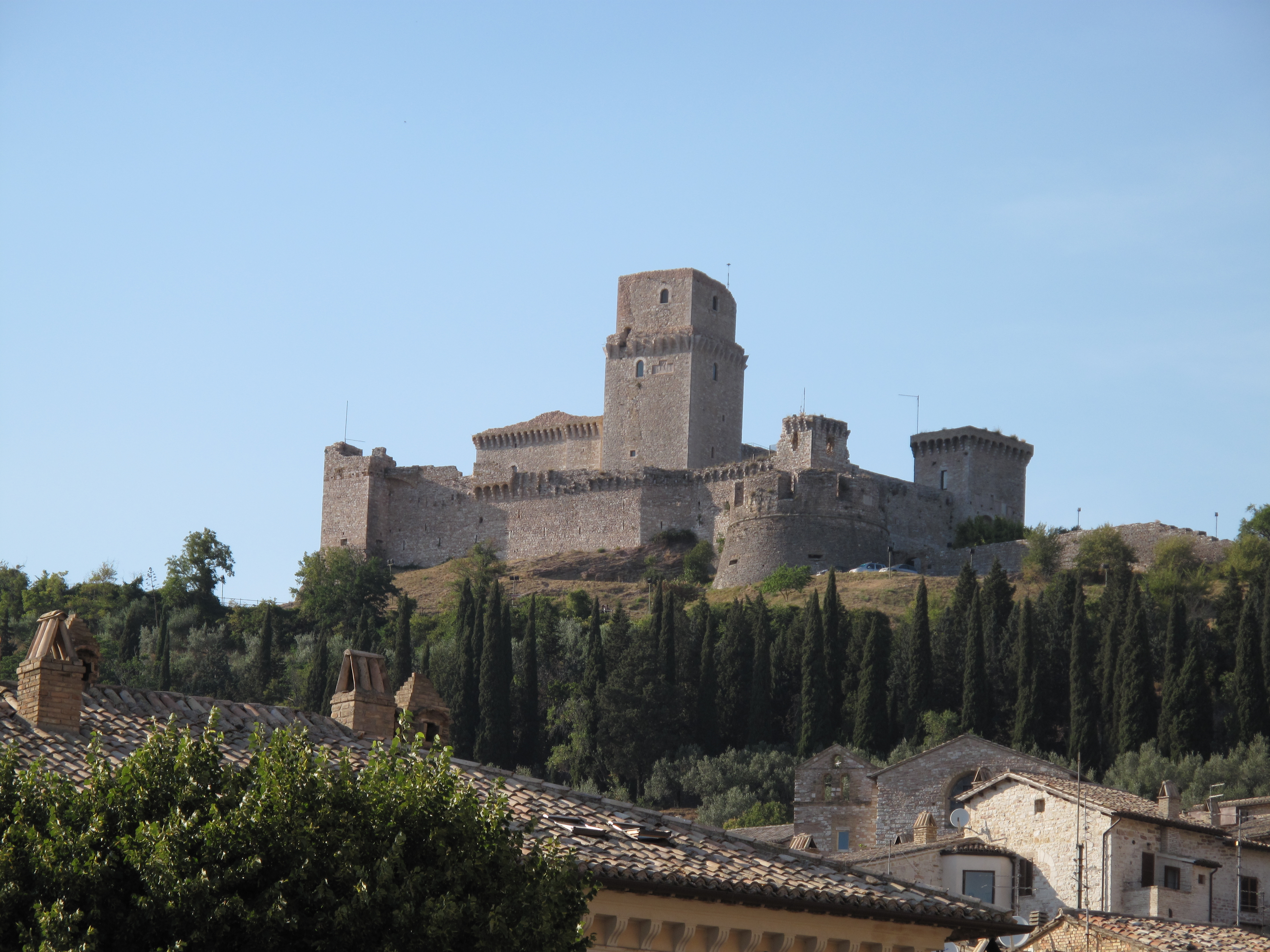 Assisi, Italy.